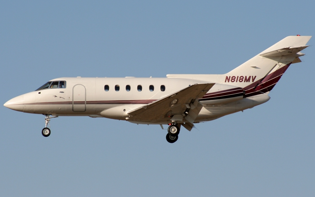 A Raytheon BAE 125-800A, tail number N818MV. Photo courtesy of Paul Kanagie. This plane crashed on July 31, 2008 in Owatonna, Minnesota.